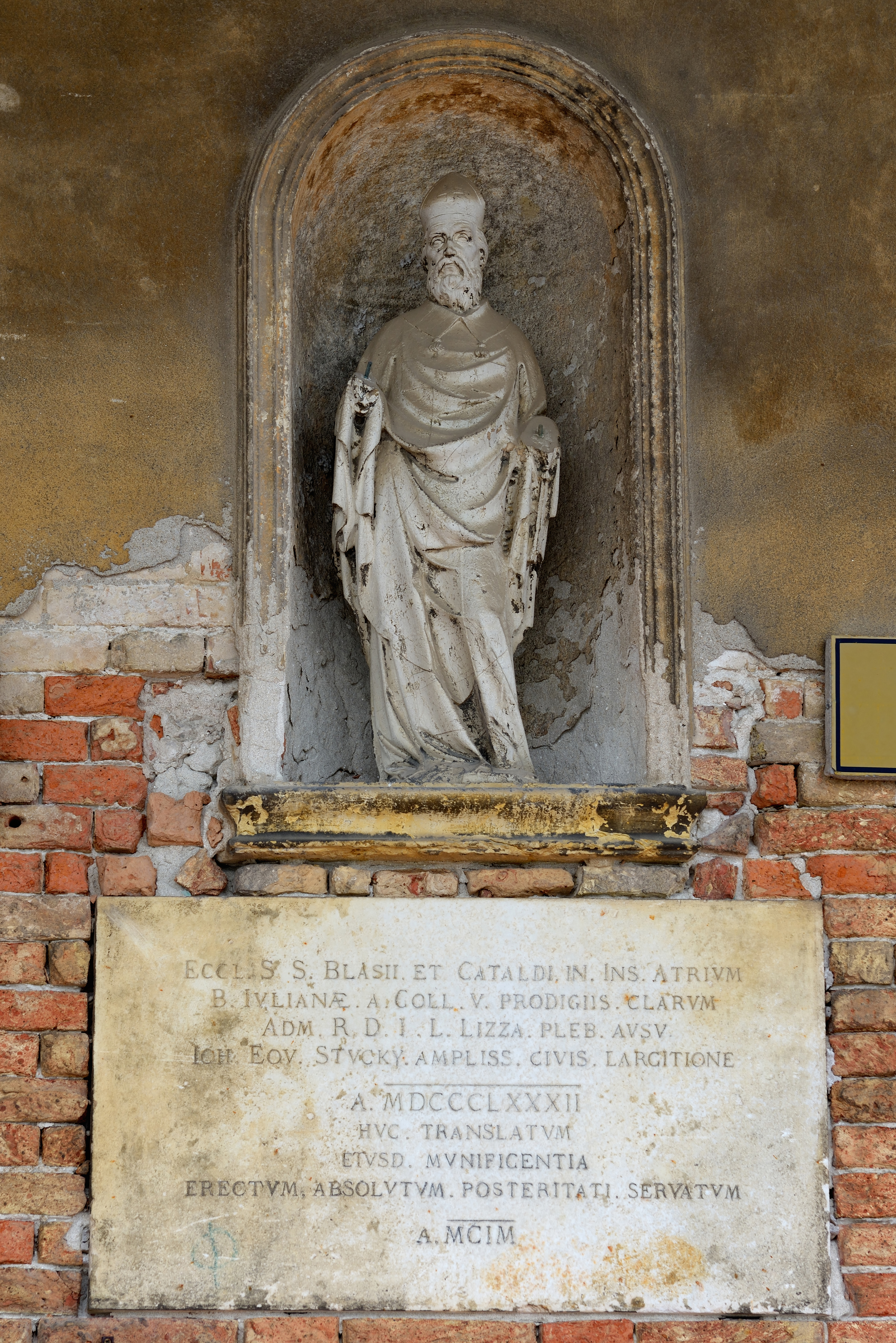 Statue of Saint Blaise on the Sant'Eufemia church on the Giudecca island in Venice - The statue was transferred from the church San Biagio AD 1882. The church and the nearby convent were destroyed to allow the construction of the Molino Stucky.